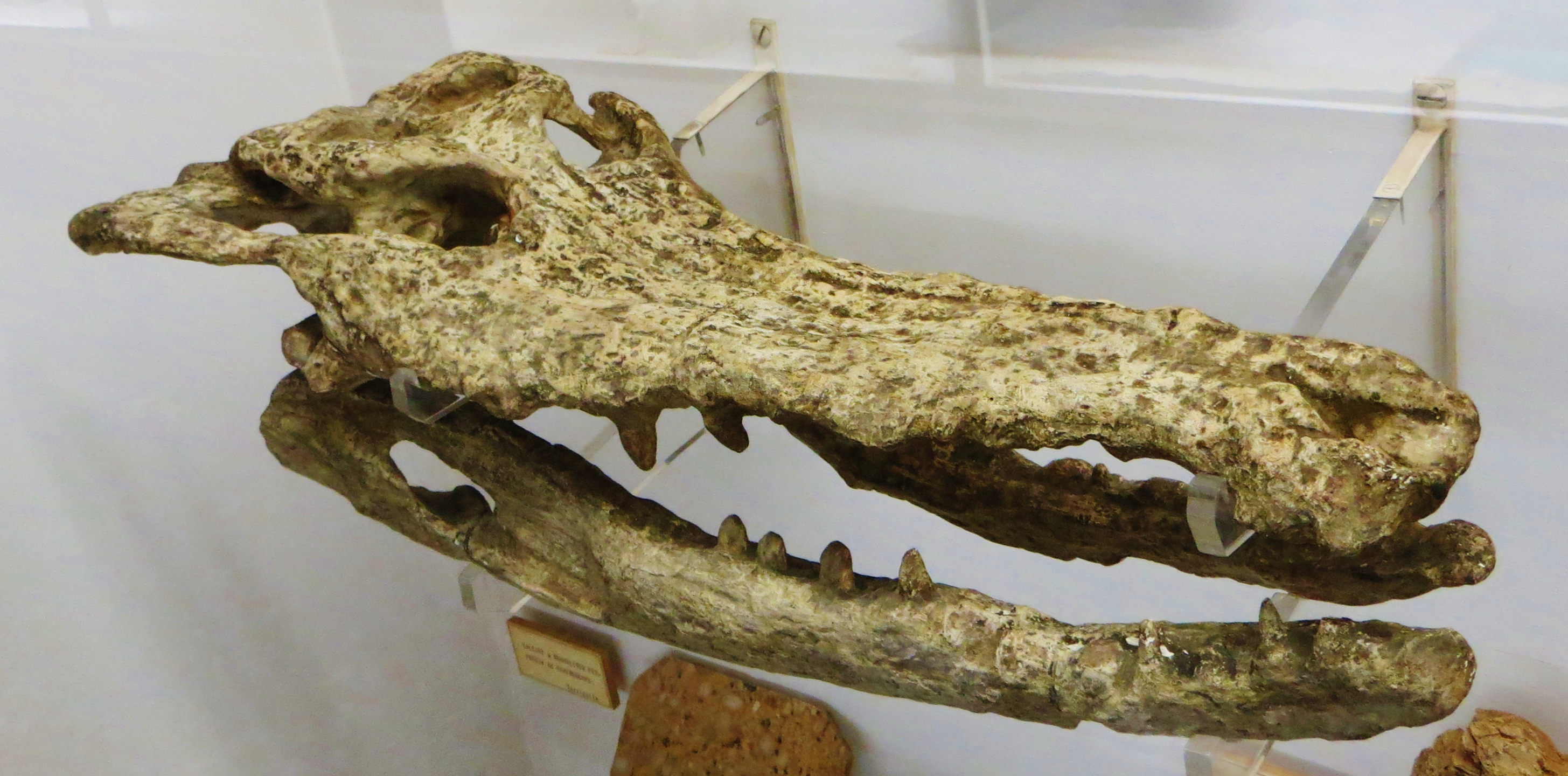 (? Copy of) holotype skull MGPD 1Z of Megadontosuchus arduini (DE ZIGNO 1880), an extinct tomistomine crocodile from the Middle Eocene of the Monte Duello, Province of Verona, N Italy, on display at the Museo di Storia Naturale di Verona.